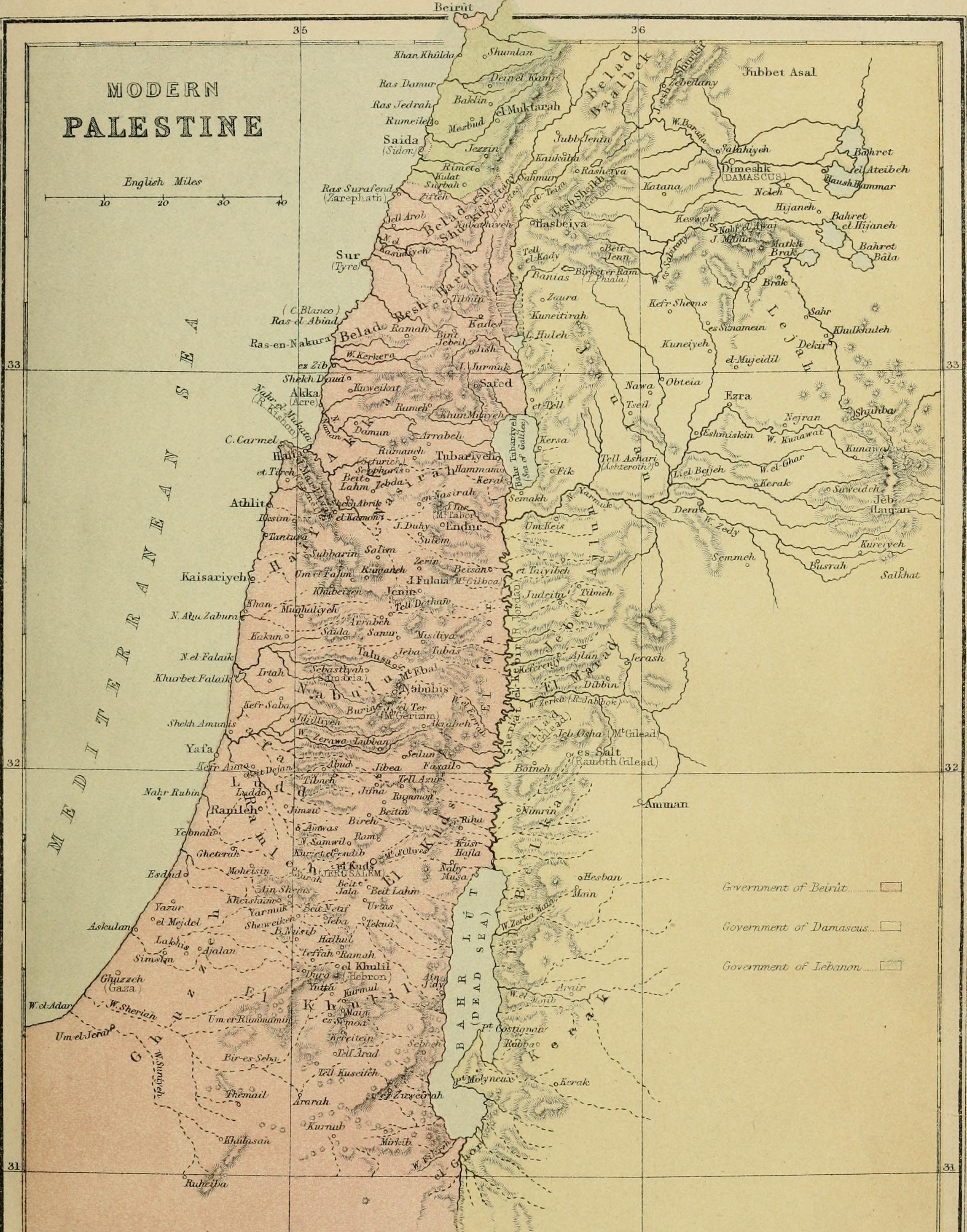 Title: A commentary, critical, experimental, and practical, on the Old and New Testaments Year: 1866 (1860s) Authors: Jamieson, Robert, 1802-1880 Fausset, Andrew Robert, 1821-1910 Brown, David, 1803-1897 Subjects: Bible Publisher: Philadelphia : J. B. Lippincott Text Appearing Before Image: ' Text Appearing After Image: COMMENTARY, CRITICAL, EXPERIMENTAL, AND PRACTICAL, OLD AND NEW TESTAMENTS, BY THE REV. ROBERT JAMIESON, D.D., ST. PAUls, GLASGOW;REV. A. R. FAUSSET, A.M., ST. CUTHBERTs, YORK; AND THE REV. DAVID BROWN, D.D., PROFESSOR OF THEOLOGY, ABERDEEN. VOL. Y.MATTHEW—JOHN BY THE REV. DAVID BROWN, D.D. PHILADELPHIA-.J. B. LIPPINCOTT & CO. INTRODUCTION TO THE GOSPELS. ATHOR.OTJGHLY critical Introduction to the Gospels is rather for a separateTreatise than for the Preface to such a Volume as this. Happily, ifamongst the biblical works with which our language is now enriched, onecomplete and satisfactory Treatise on this subject, adapted to the present stateof research and of thought, is scarcely yet within the reach of the mere Englishreader, the materials for it are abundant. In what follows we can do little more than indicate the proper line ofinvestigation, state briefly the leading facts on the different branches of thesubject, and diaw the conclusions which these justify and demand. When